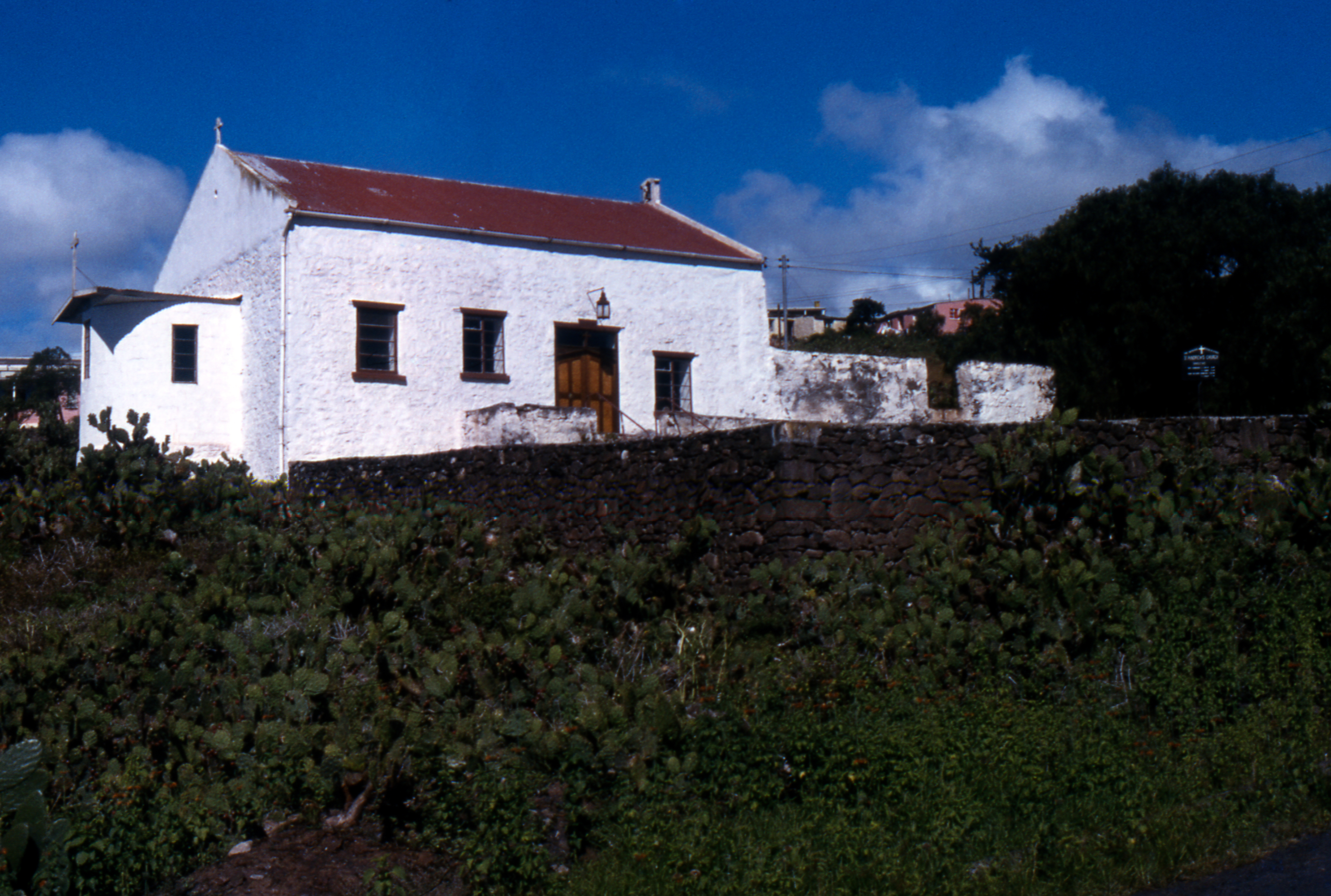 The Anglican Church of St Andrew’s, Half Tree Hollow, Island of St Helena. Image taken between 1982 and 1985 by Andrew Neaum.